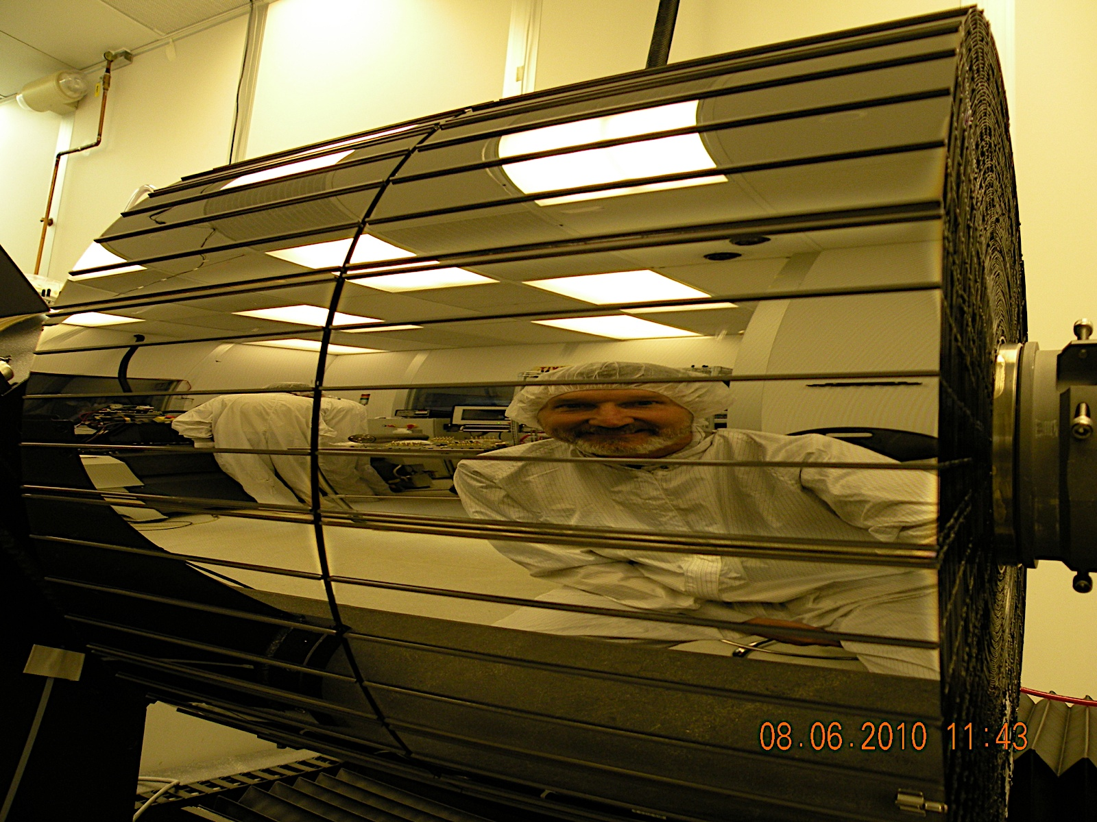 The first NuSTAR optics module (“FM0”) completed on 2010 August 5. NuSTAR will fly two optics units, each with 133 layers of grazing incidence optics. Using epoxy and graphite spacers, the layers are built up, approximately one layer per day, on a CNC (computed numerically controlled) lathe assembly machine at Columbia University’s Nevis Laboratory. The inner 66 layers are comprised of 6 segments with 12 pieces of glass per layer, while the outer 67 layers are comprised of 12 segments with 24 pieces of glass per layer. Each unit is 47.2 cm (18.6 inches) long, 19.1 (7.5 inches) cm in diameter and weighs 31 kg (69 pounds). In reflection: Todd Decker.